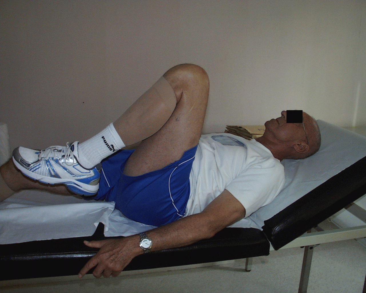 Hip flexion 30 days after THA, with the ASIA technique